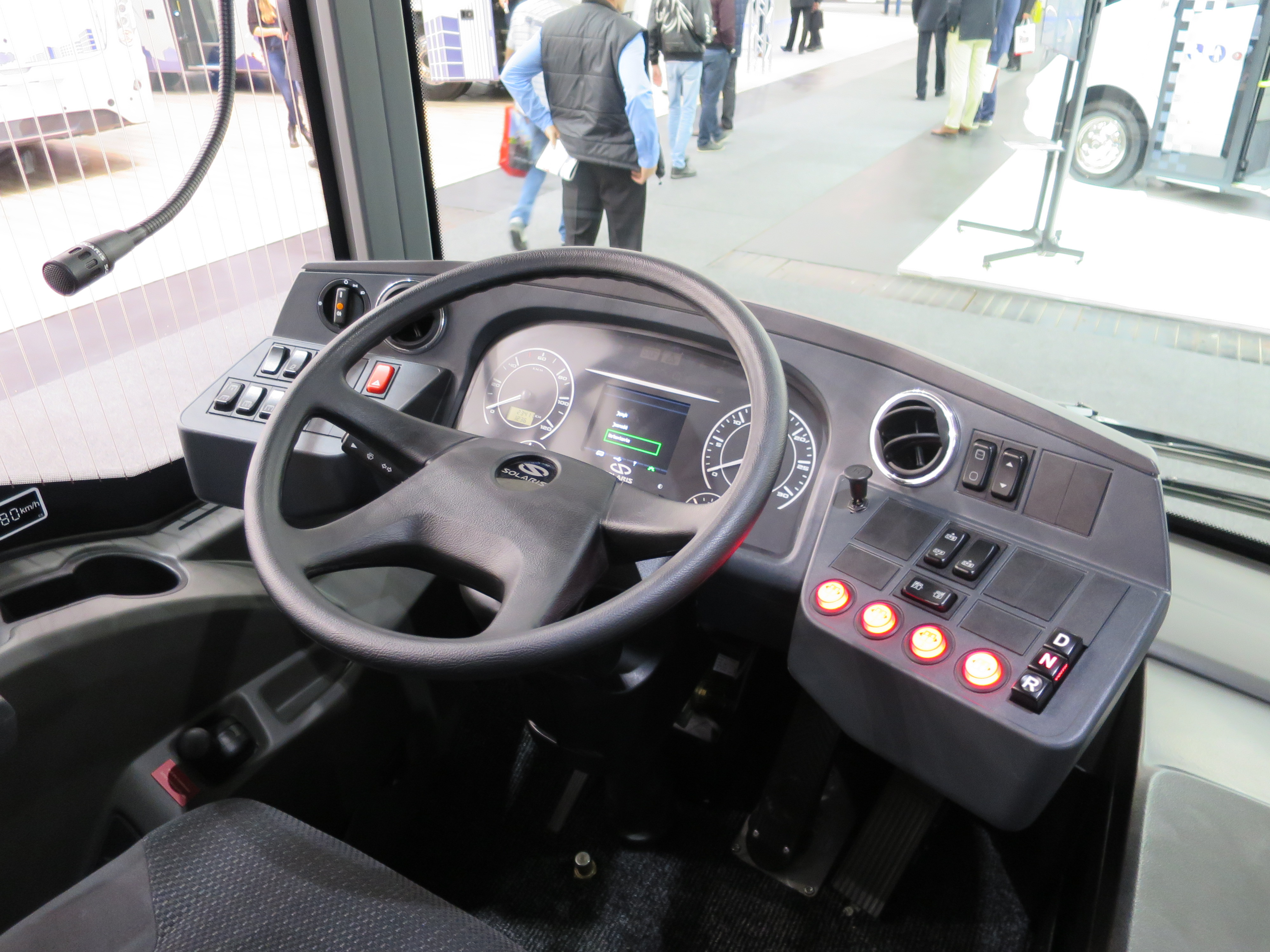 The making of this document was supported by Wikimedia Polska Association, within Wikigrant no. WG 2016-35. Solaris Urbino 12 CNG